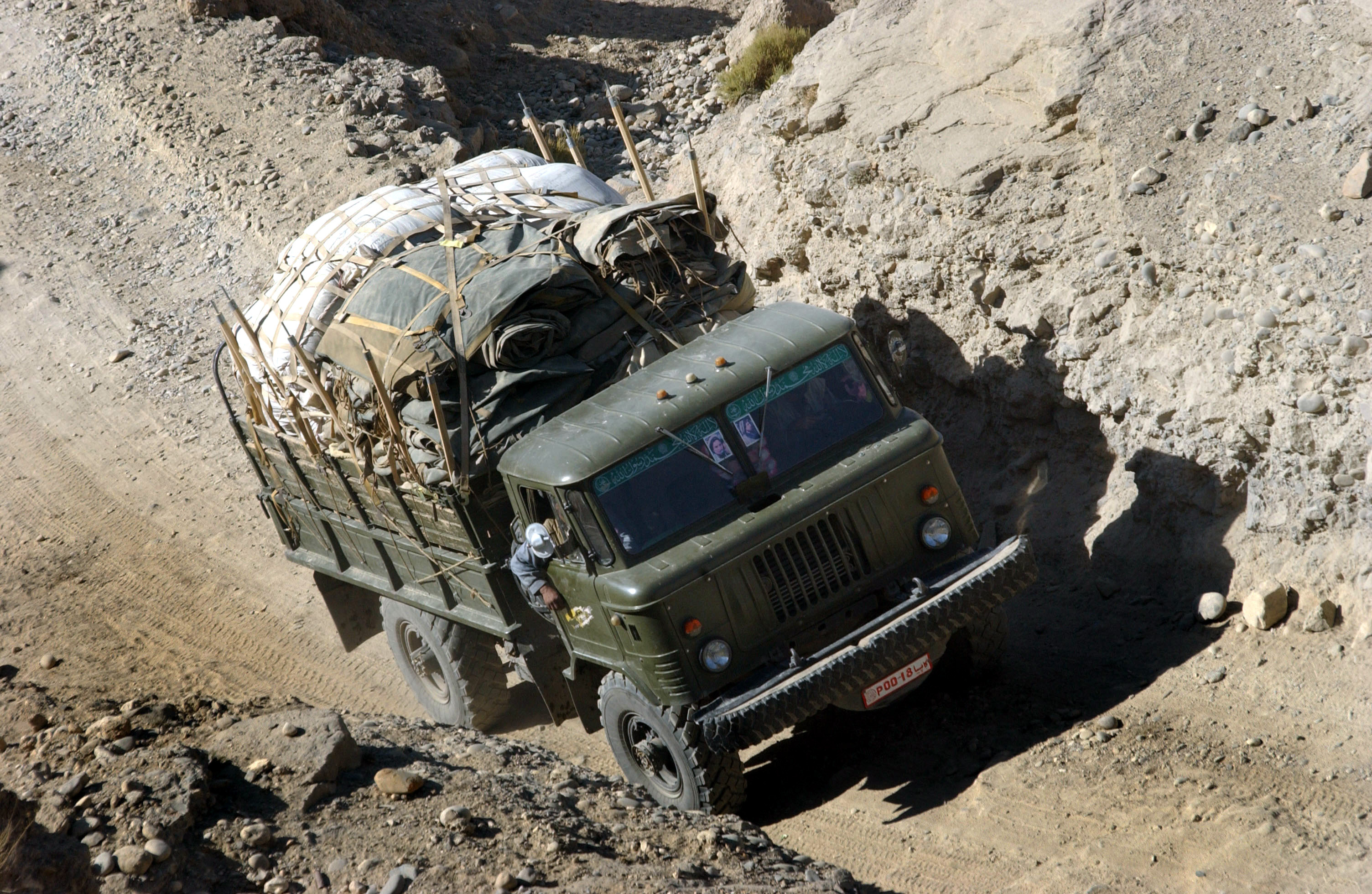 A GAZ-66 (4X4) 2,000 kg truck is used to transport humanitarian aid materials through the steep and narrow roads leading to the village of Nejhab, located in the mountains of Afghanistan. The aid, donated by US Army (USA) Soldier assigned to the 489th Civil Affairs Battalion, and from the 8th and 9th Psychological Operations Groups, include 10 medium size tents, 250 blankets, and three medical kits, and is headed for the villagers before the colder seasons begin.